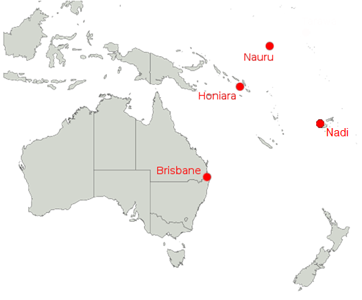 Map of the destinations of the Our Airline company